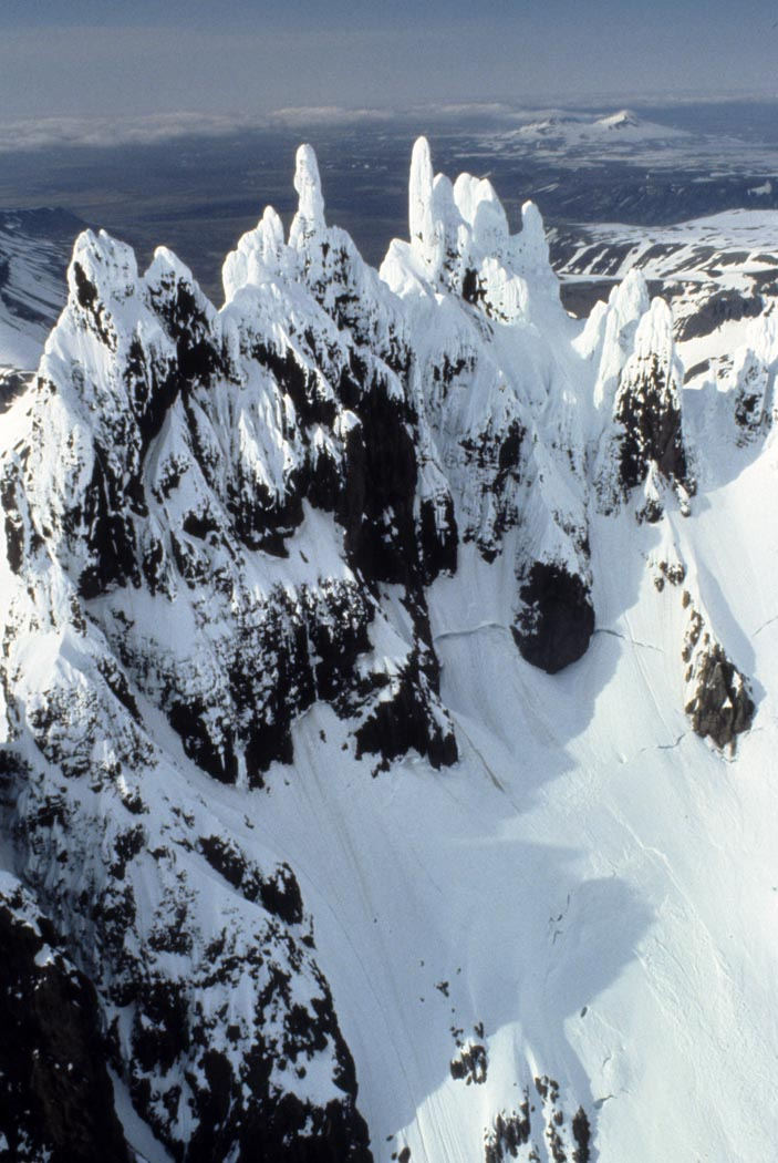 Aghileen Pinnacles File size: 156 KB Format: JPEG image (image/jpeg) Dimensions: Screen: 703px x 1050px Print: 4.69 x 7.00 inches Resolution: 150 dpi (mid, presentation quality) Depth: 24 color(s) Title: Aghileen Pinnacles Alternative Title: (none) Creator: Dewhurst, Donna A. Source: SL-03634 Publisher: (none) Contributor: ASSISTANT REGIONAL DIRECTOR-EXTERNAL AFFAIRS Language: EN - ENGLISH Rights: (public domain) Audience: (general) Subject: Scenic Landscape Mountains Izembek National Wildlife Refuge Alaska Donna Dewhurst Collection